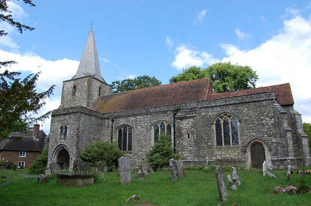 Pluckley Church